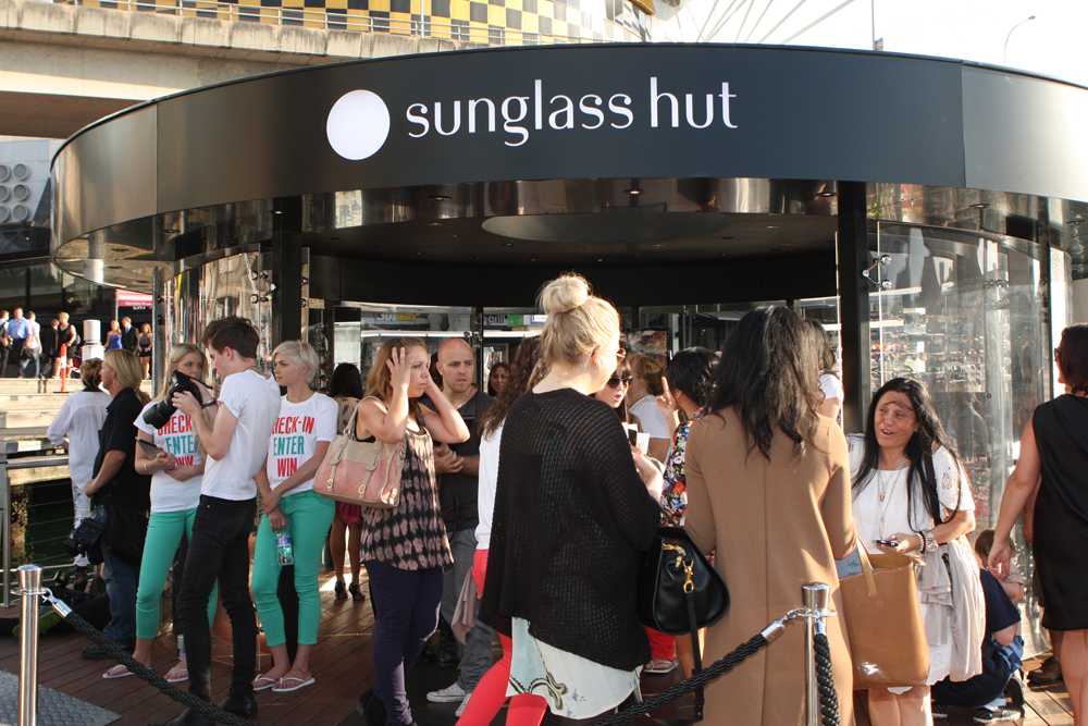 Georgia May Jagger in Sydney for a promotional event for Sunglass Hut.